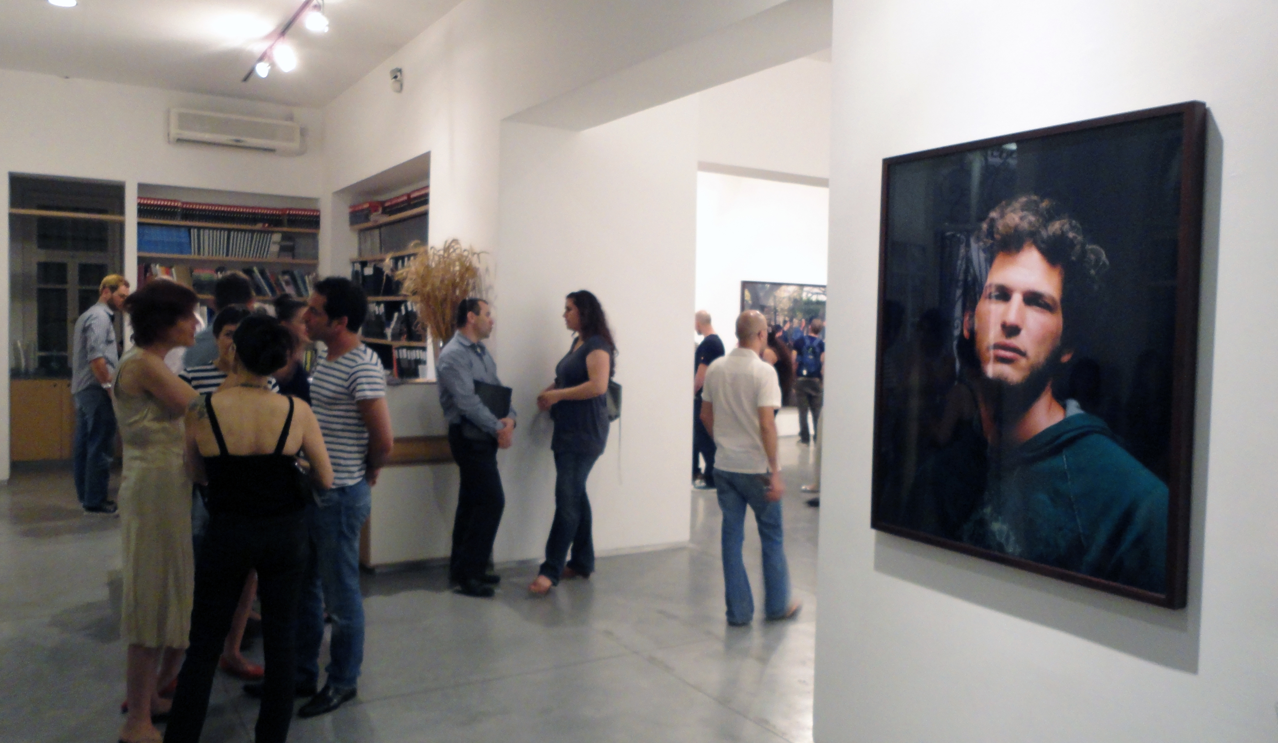 Adi Nes, The Village, May 17, 2012 Sommer Contemporary Art, 13 Rothschild Blvd, Tel Aviv-Yaffo